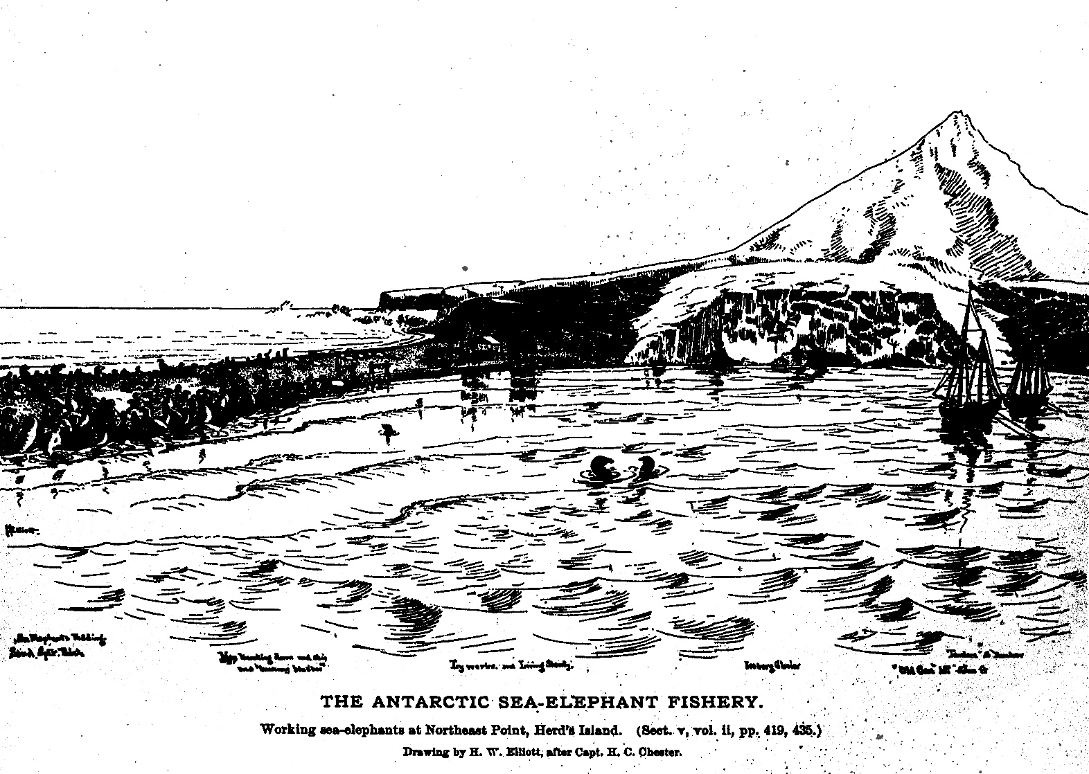 «Working sea-elephants at northeast point, Herd's Island» : scenery of southern elephant seal hunting on Heard Island during the 19th century.